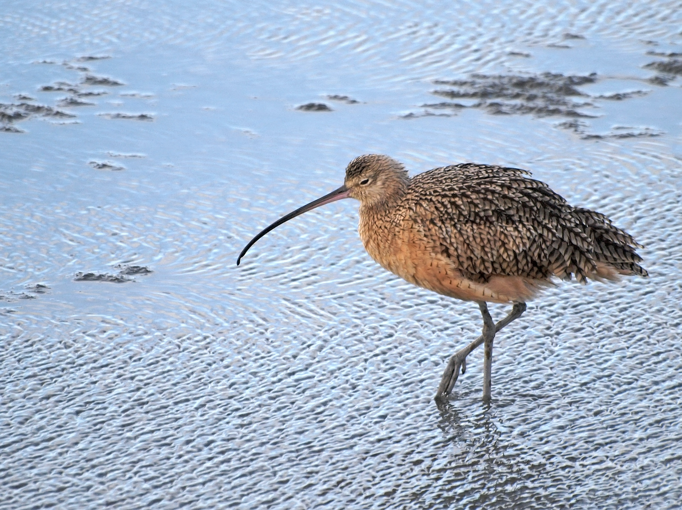 Long-billed Curlew at Hayward Shoreline -- in a glimmer of sun between downpours. Went out in the rain, even though I knew the light would be less than optimal. I liked the ripples on the water and the similarly rippled look of his wind-blown feathers.